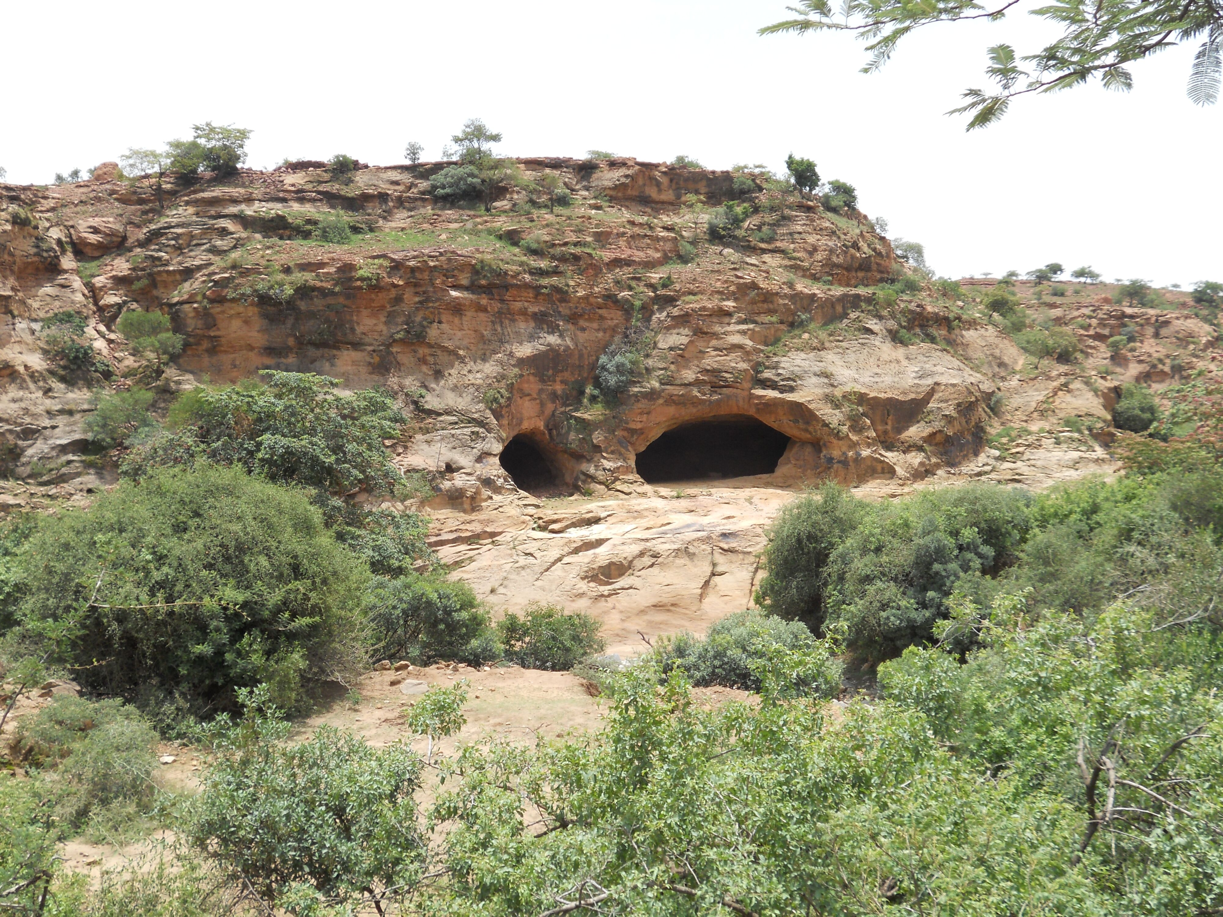 Kayeh Be'ati, "red caves" in Adigrat Sandstone, near Gelebeda